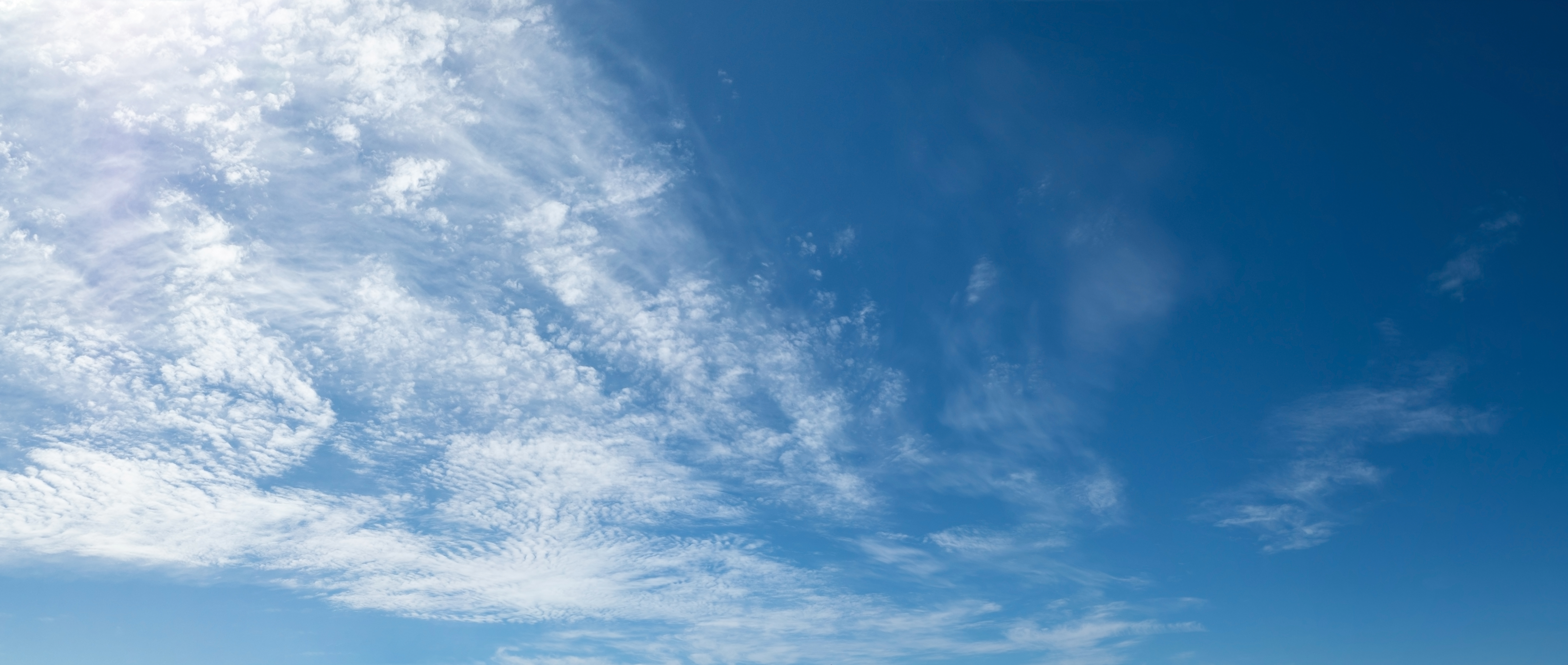 Cirrocumulus in the sky above Gåseberg, Lysekil Municipality, Sweden.